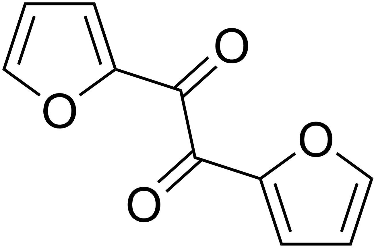 alpha-Furil molecule, created using PubChem structure editor